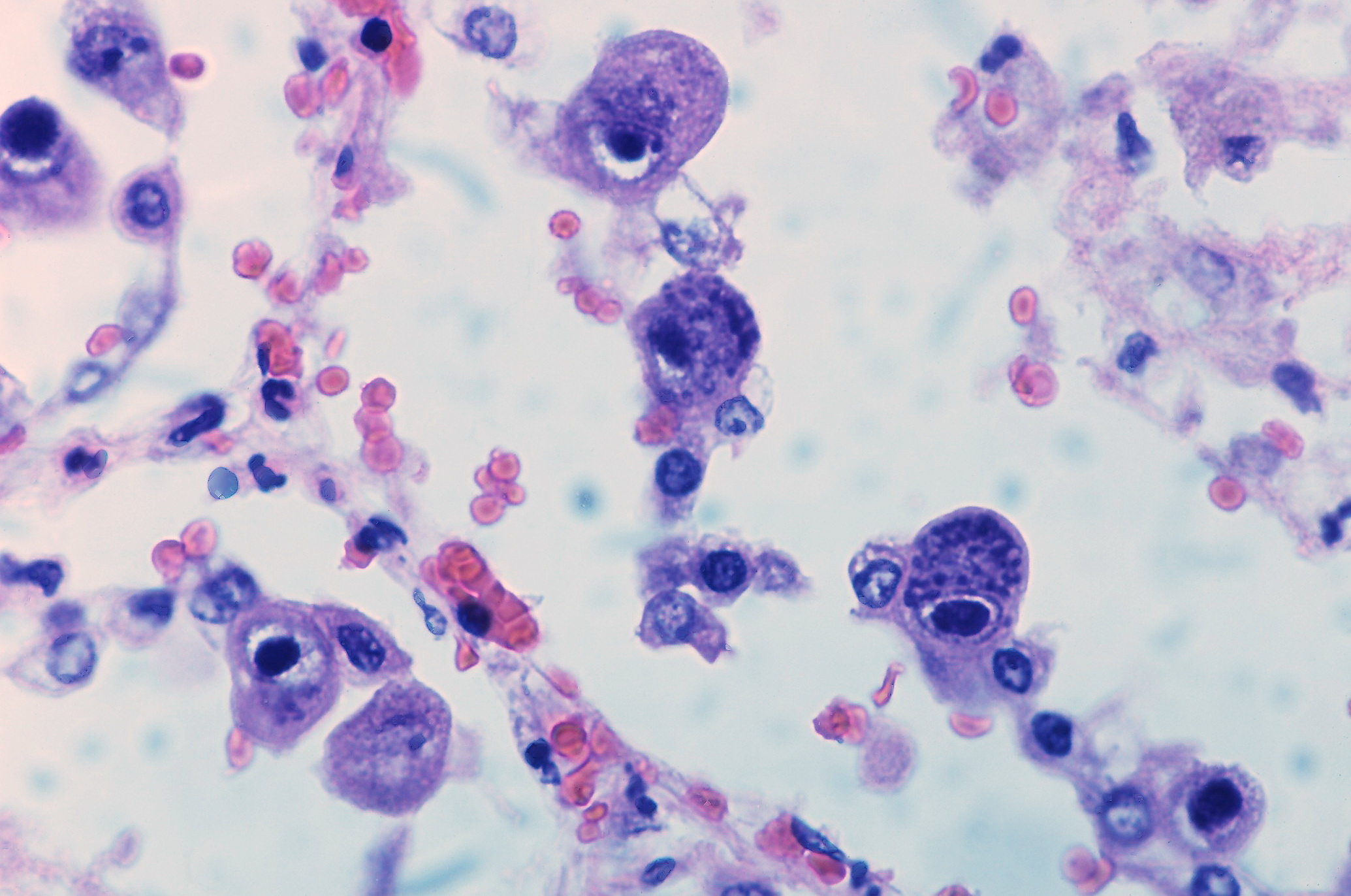 Cytomegalovirus infection Basophilic nuclear inclusions with peri-nuclear halo and granular basophilic cytoplasmic inclusions.